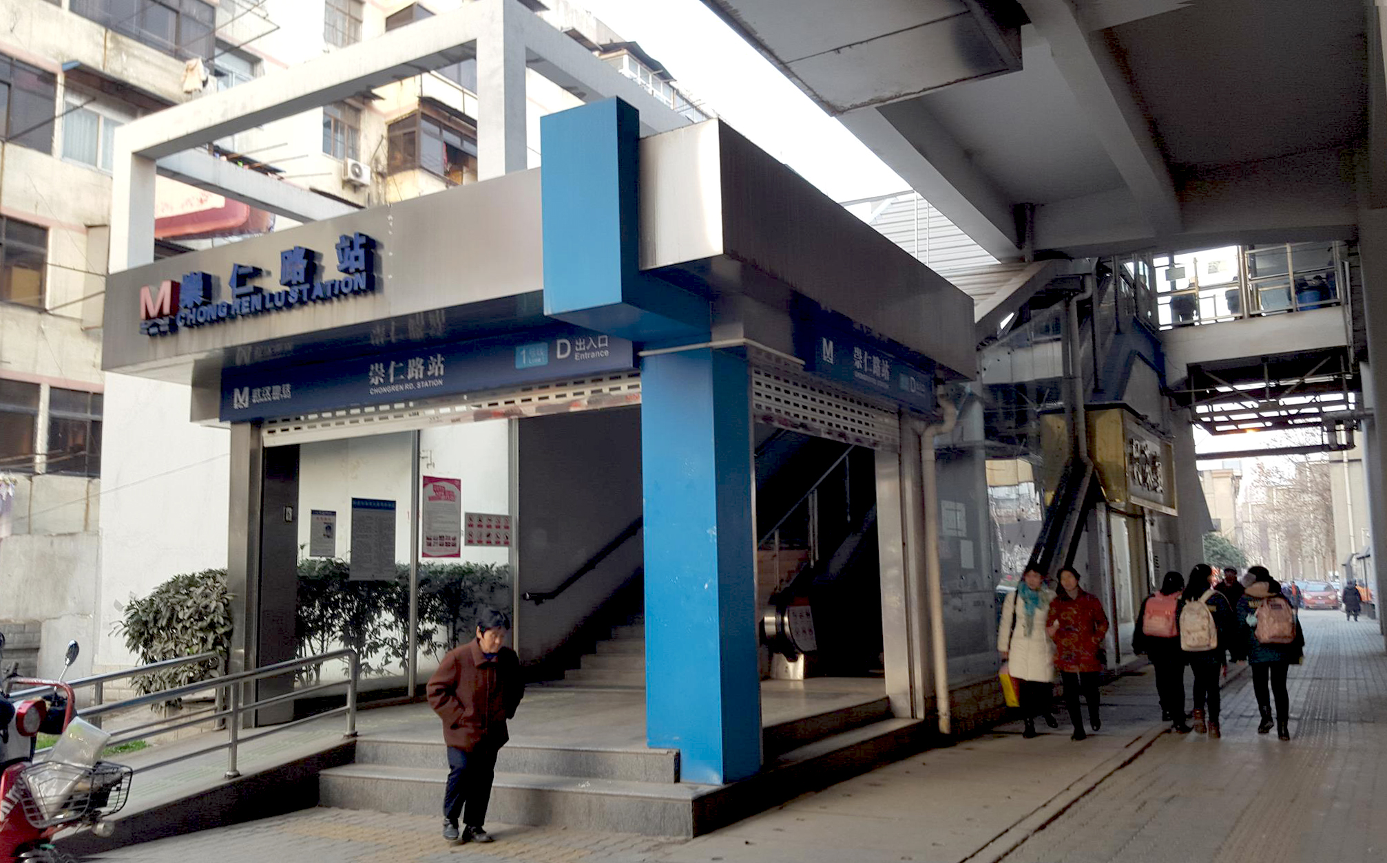 Entrance D of Chongren Road Station, Wuhan Metro